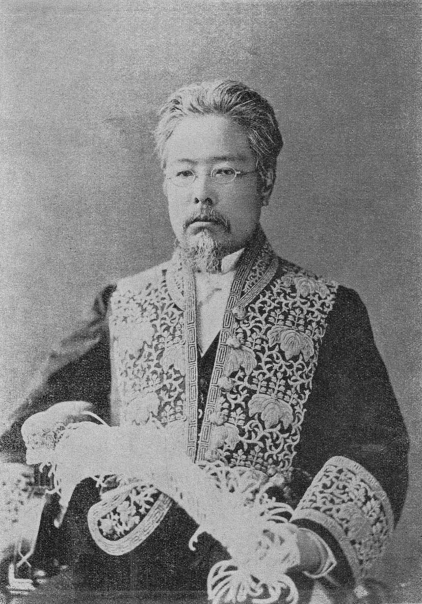 Portrait of Mr. Masanao Nakamura.